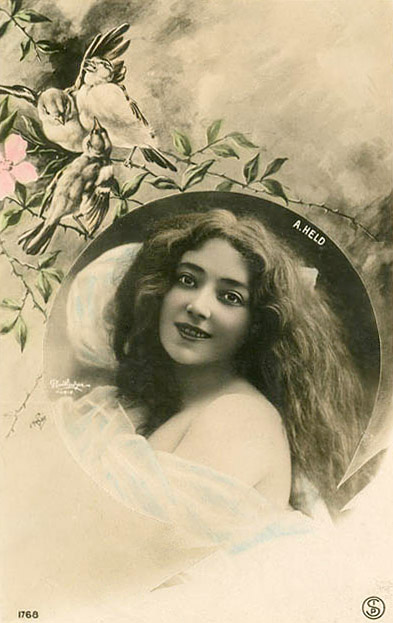 A(nna) Held